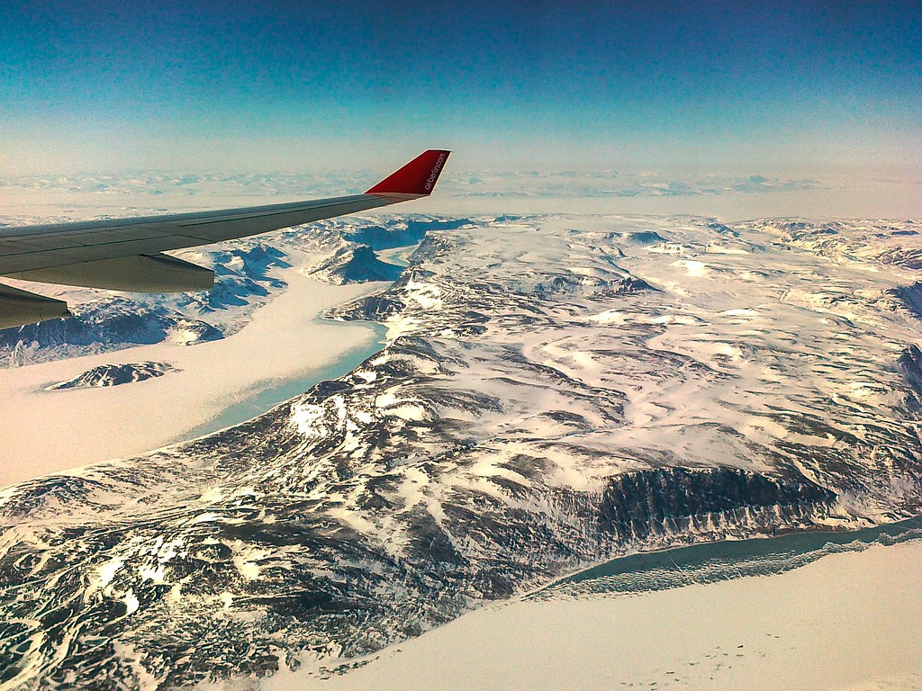 5th May 2012: North Polar flight with Air Berlin - Flight back to Northeast Greenland - View of the Mørkefjord on the left and the Sælsøen on the right (Photographer: Basti, Editor: Hedwig)